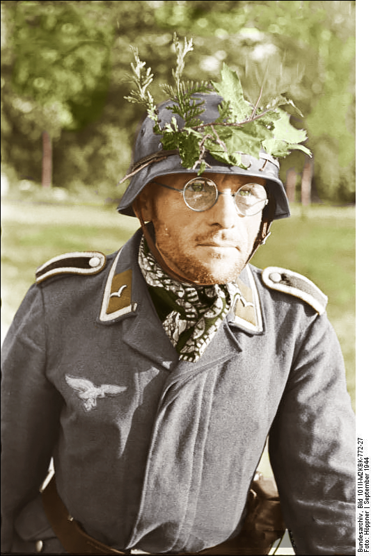 This is a retouched picture, which means that it has been digitally altered from its original version. Modifications: recolored. The original can be viewed here: Bundesarchiv Bild 101II-M2KBK-772-27, Arnheim, deutsches 2 cm Flakgeschütz.jpg: . Modifications made by Ruffneck88. Arnheim, deutsches 2 cm Flakgeschütz Photographer HöppnerArchive description Description provided by the archive when the original description is incomplete or wrong. You can help by reporting errors and typos at Commons:Bundesarchiv/Error reports. Niederlande, Arnheim.- Anflug von Transportflugzeugen und Absprung von Fallschirmjägern, 2 cm Flak im Einsatz gegen Fallschirmjäger; M 2 KBKTitle Arnheim, deutsches 2 cm Flakgeschütz Depicted place ArnheimDate September 1944date QS:P571,+1944-09-00T00:00:00Z/10Collection German Federal Archives Native nameDas BundesarchivLocationKoblenz (headquarters)Coordinates50° 20′ 32.71″ N, 7° 34′ 21.22″ E Established1946Web page control : Q685753 VIAF: 137346469 ISNI: 0000 0004 0555 2728 LCCN: n92025526 NLA: 36455393 Open Library: OL55798A WorldCat institution QS:P195,Q685753Current location Propagandakompanien der Wehrmacht - Marine (Bild 101 II)Accession number Bild 101II-M2KBK-772-27 Source This image was provided to Wikimedia Commons by the German Federal Archive (Deutsches Bundesarchiv) as part of a cooperation project. The German Federal Archive guarantees an authentic representation only using the originals (negative and/or positive), resp. the digitalization of the originals as provided by the Digital Image Archive.